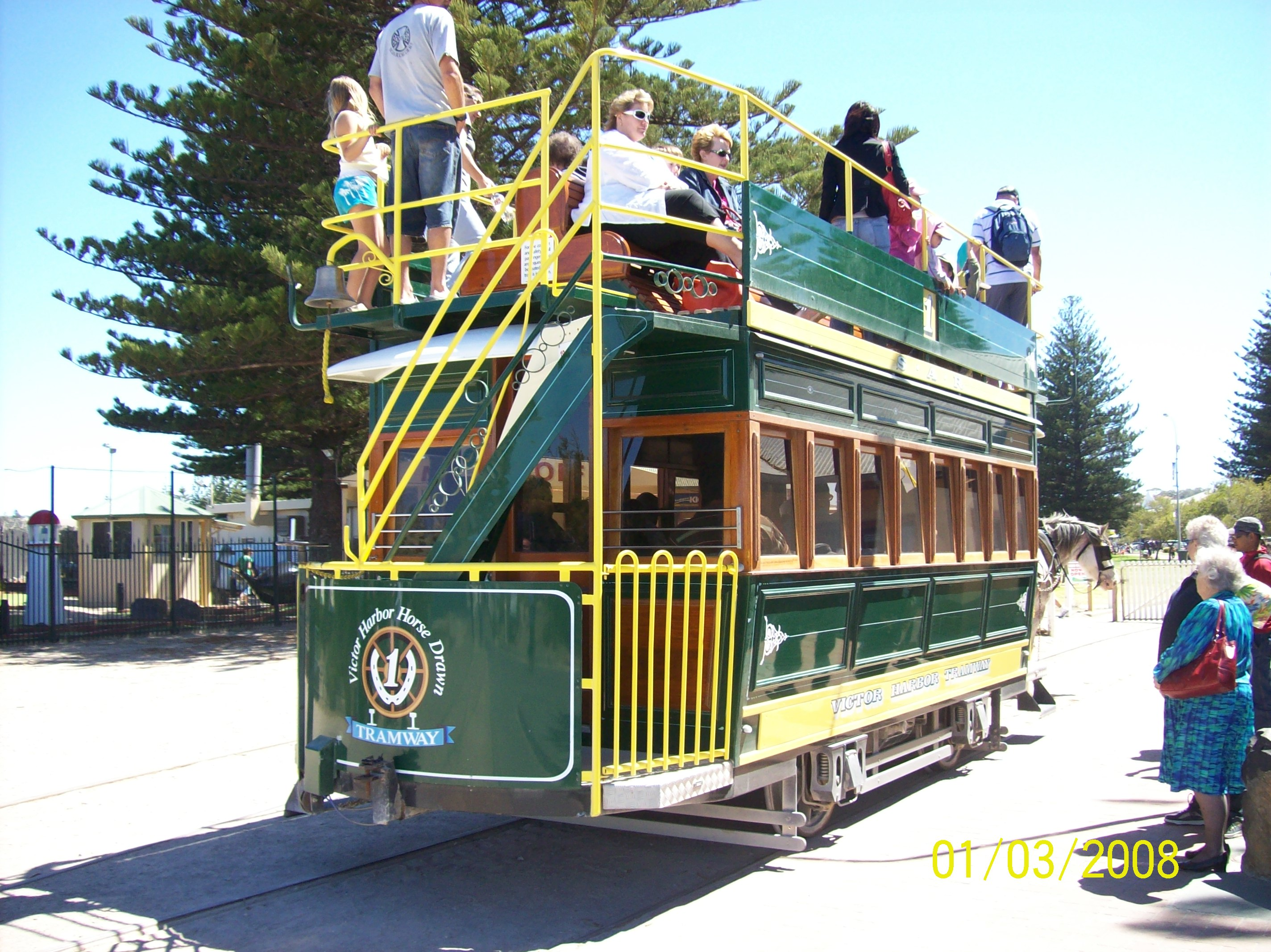 A horse tram daily operates between Victor Harbor - Granite island, South Australia. For more information, see the Wikipedia article Victor Harbor Horse Drawn Tram.